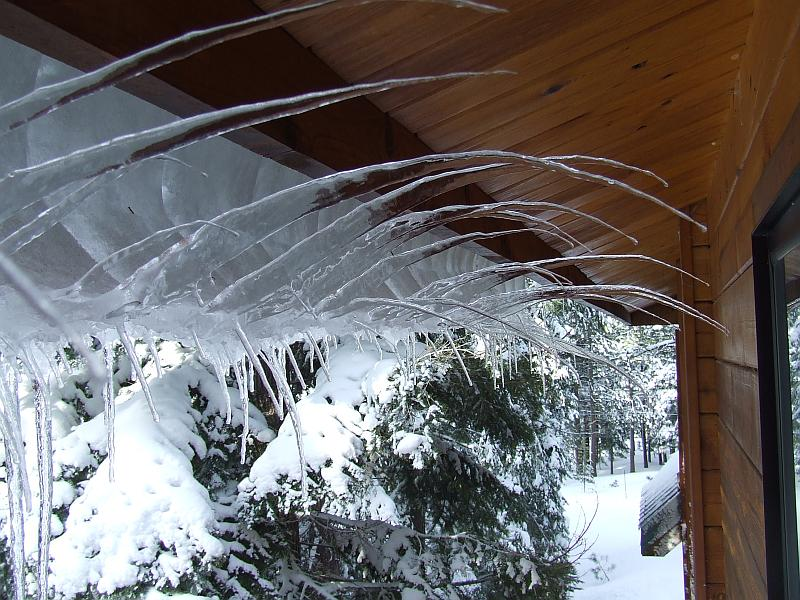 Icicles in Truckee, California